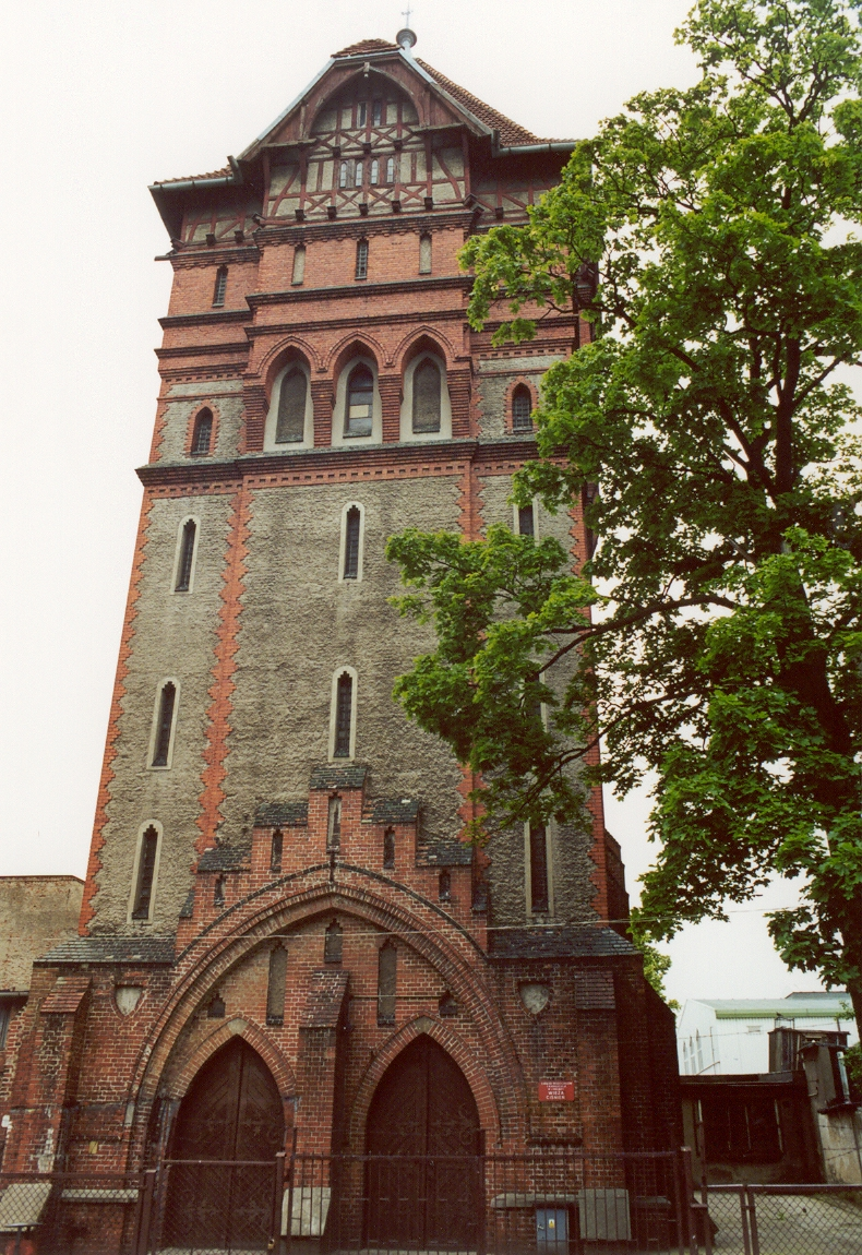 Chelmza: Water Tower